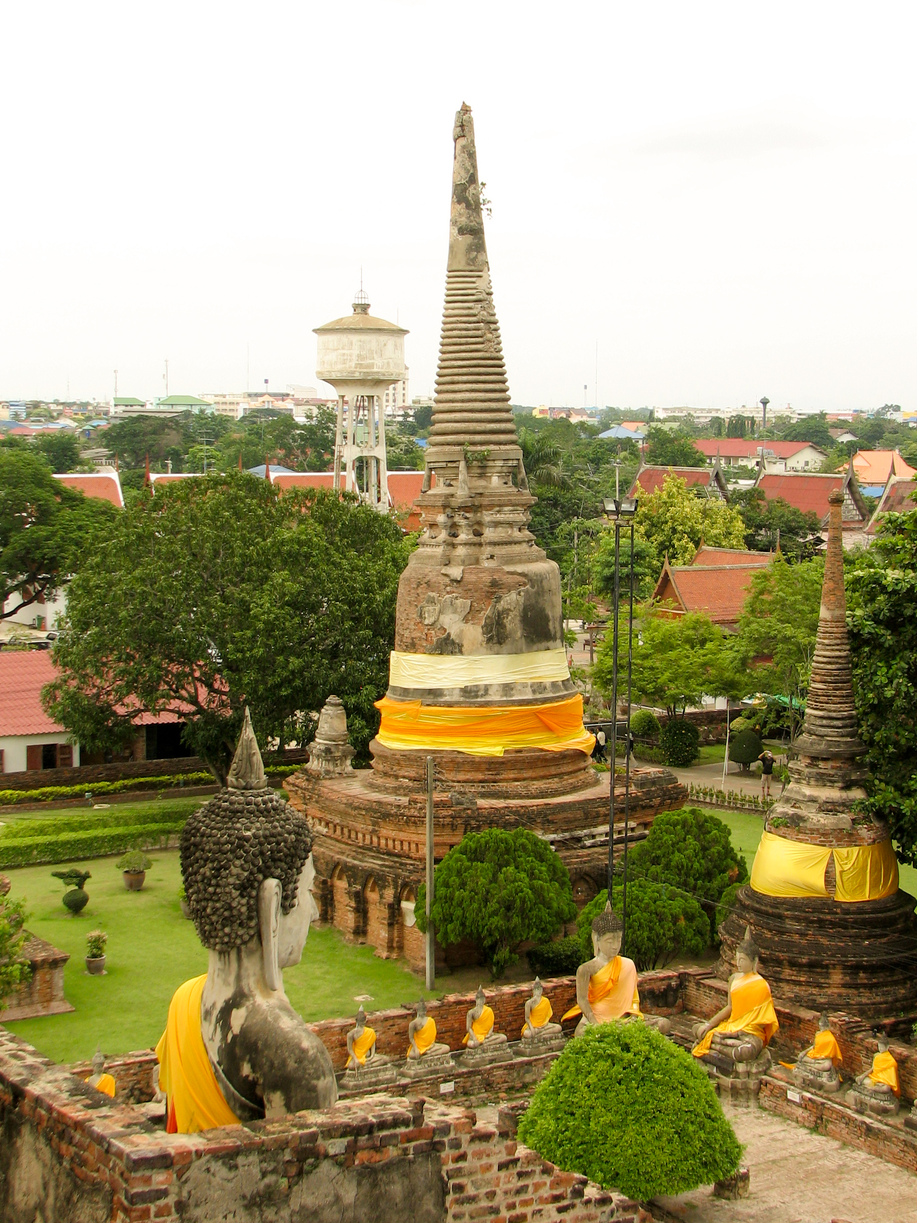 Wat Yai Chai Mongkhon, Ayutthaya, Thailand